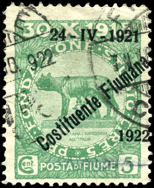 Fiume 5-centime overprint stamp of 1922